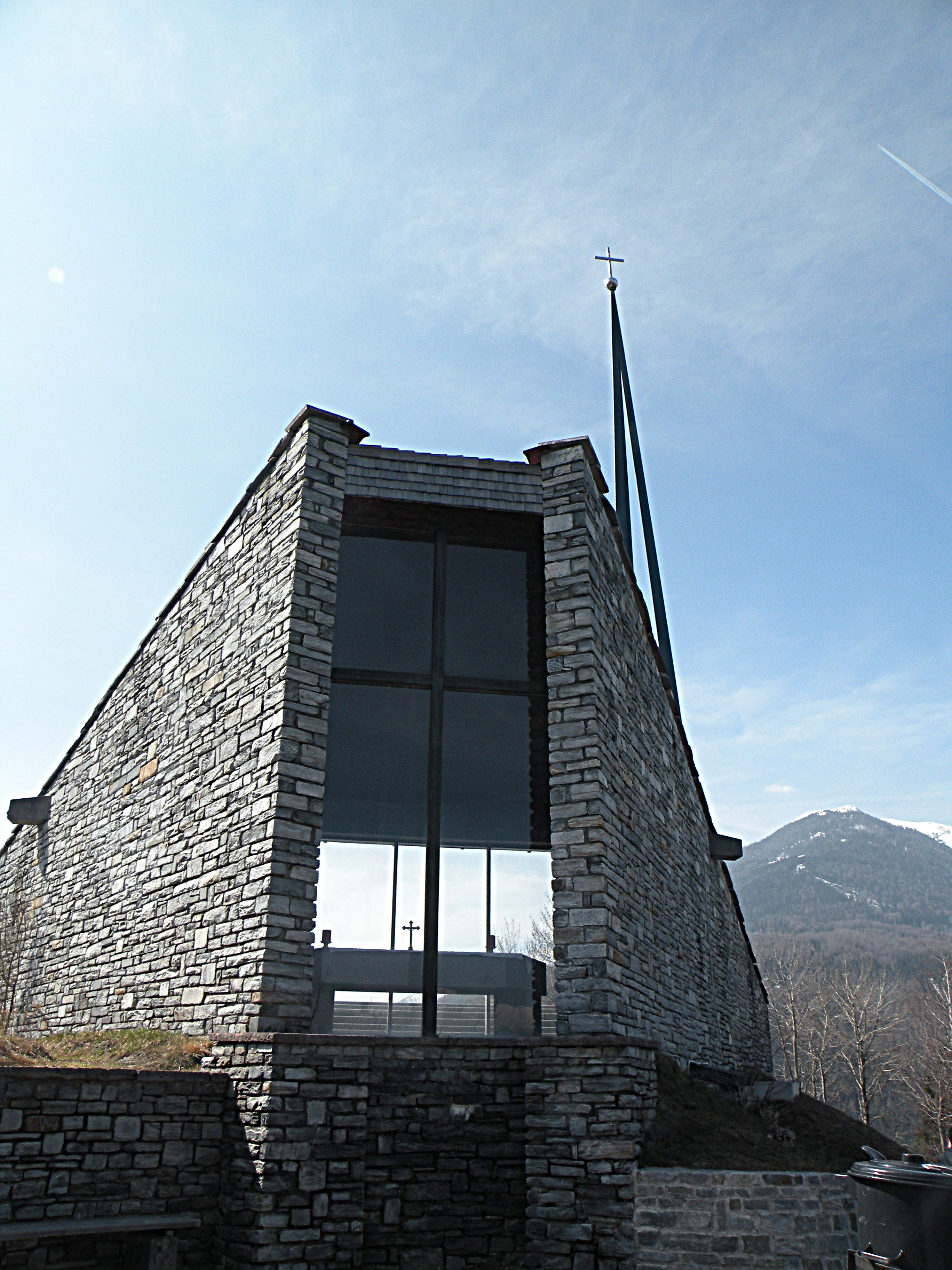 Chapel at Europa Bridge in Tyrol, Austria 4 April 2013